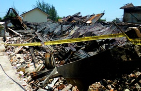 Aftermath of the 2012 Balikpapan Foam company fire in Sepinggan in 2012.